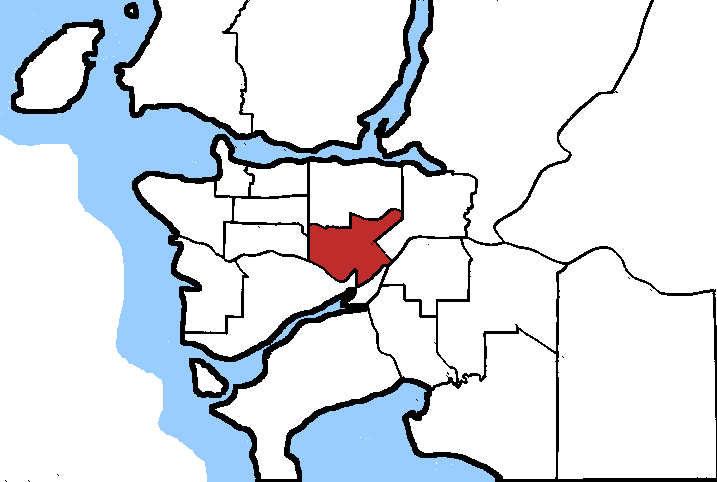 Map of the Burnaby—New Westminster electoral district. Based on Earl Andrew's maps, created by SimonP.